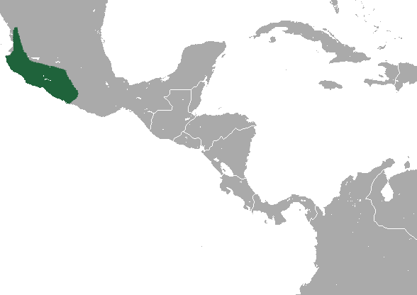 Mexican Shrew (Megasorex gigas) range